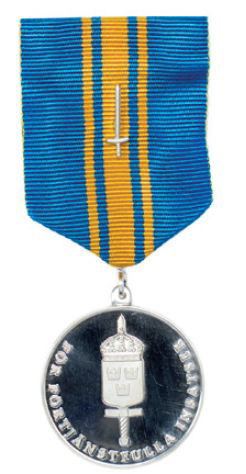 Swedish Armed Forces Medal of Merit in silver with swords